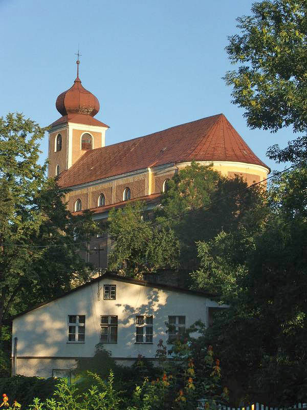 Town Stronie Śląskie (Lower Silesia, Poland) - church of St Maternus